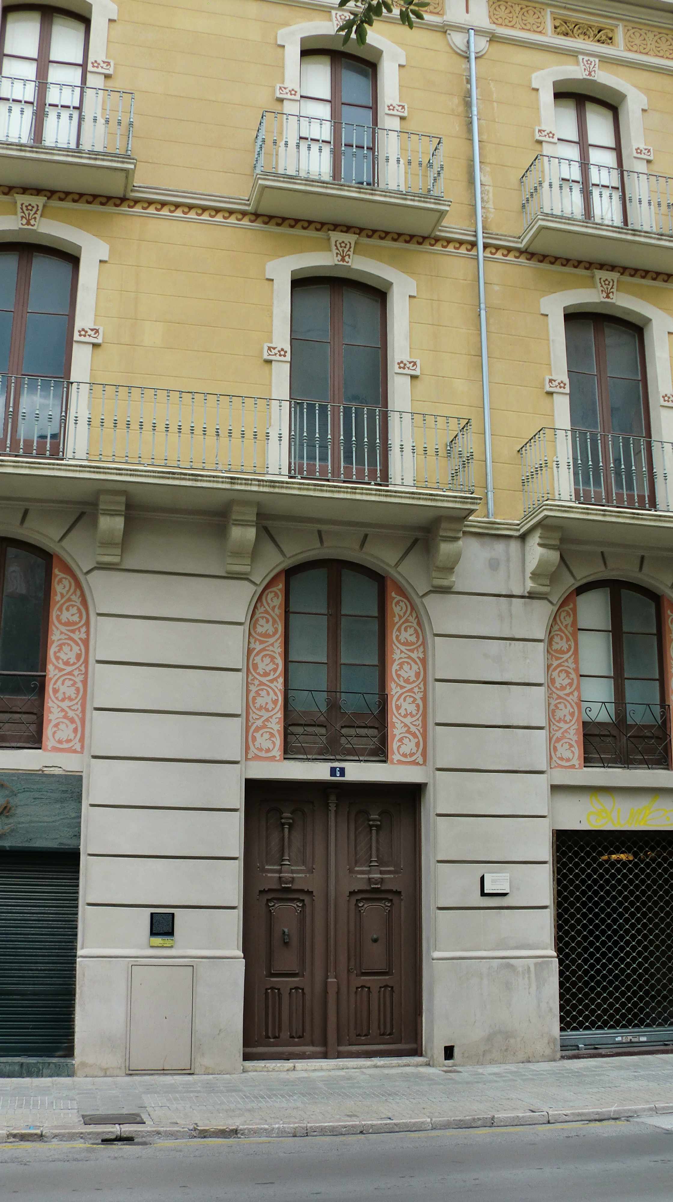 Salvador Dalí's birthplace at Monturiol Street in Figueres